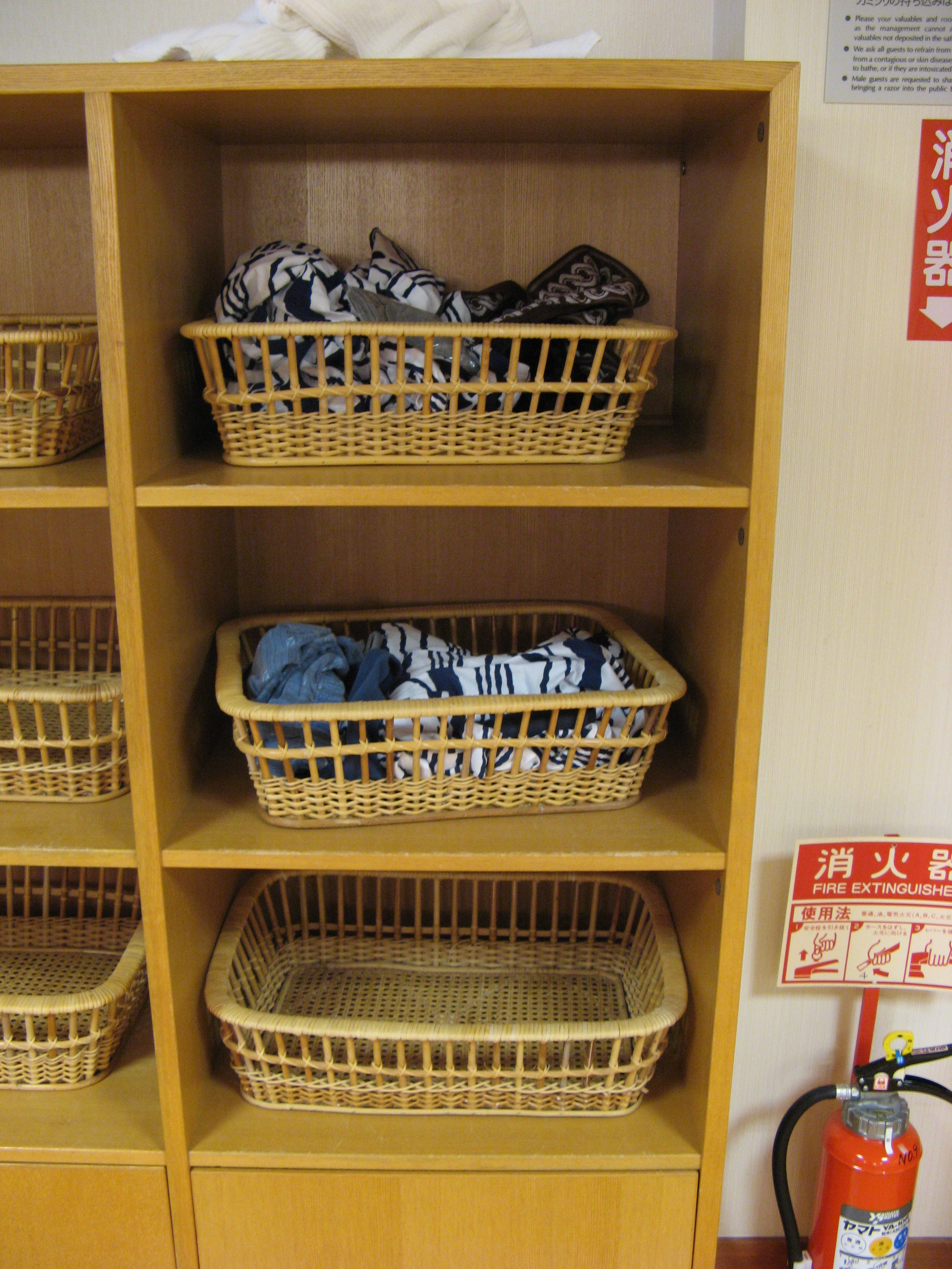 Baskets with clothes in dressing room